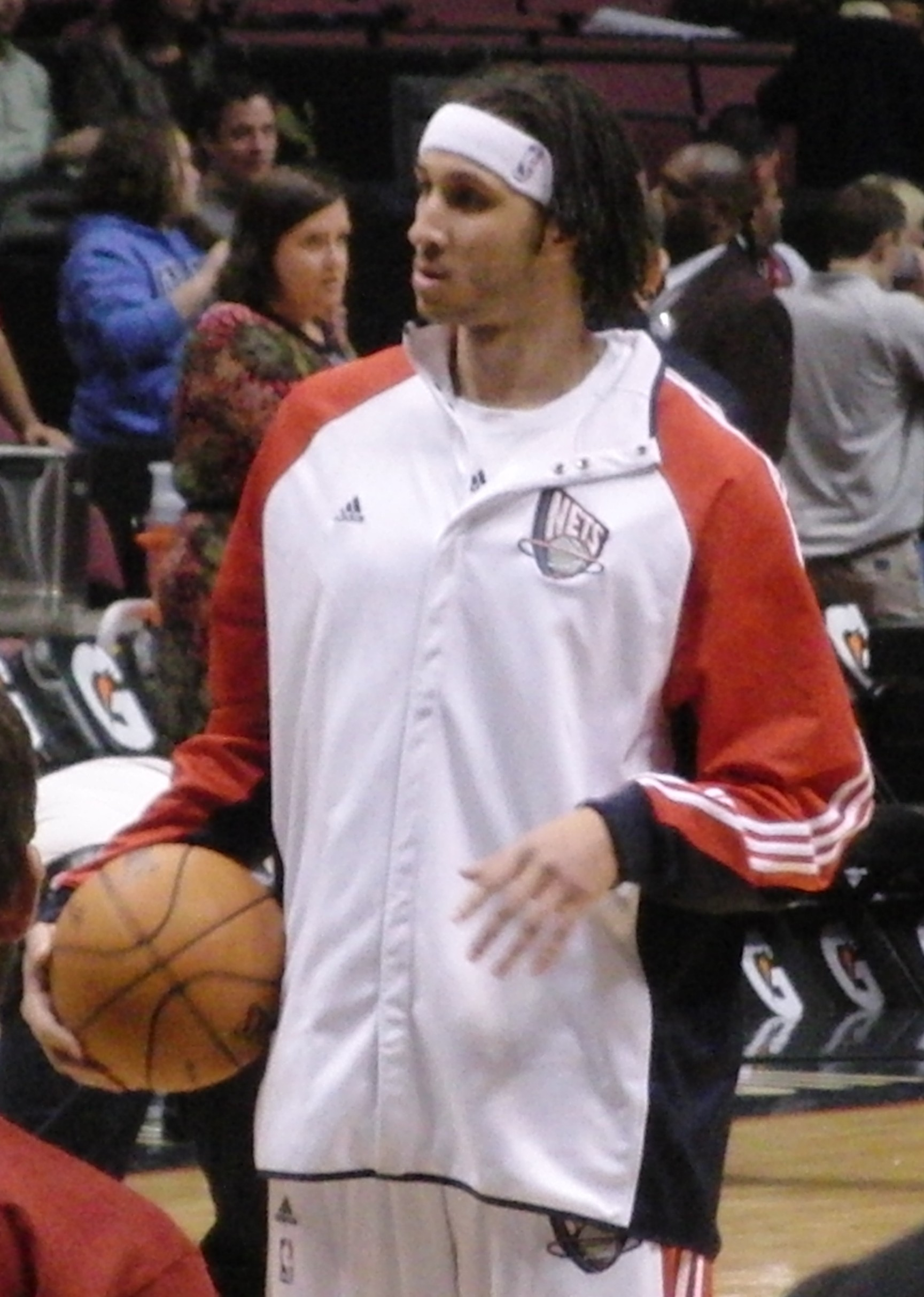 Photo of Josh Boone of the New Jersey Nets